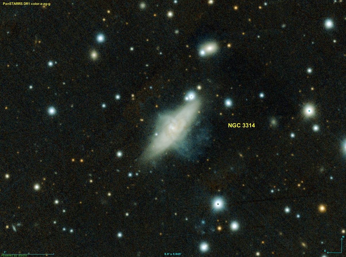 Image created using the Aladin Sky Atlas software from the Strasbourg Astronomical Data Center and Pan-STARRS (Panoramic Survey Telescope And Rapid Response System) public data.